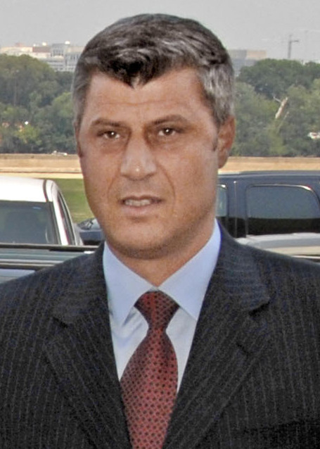 Kosovar Prime Minister Hashim Thaci goes through an honor cordon into the Pentagon on July 18, 2008.